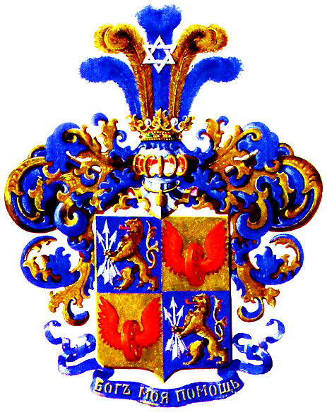 Coat of Arms of Lazar Polyakov